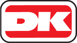 Dankort logo. History of Image:Dankort logo.gif 2007-04-23T22:09:36Z Cydebot (Talk | contribs) (62 bytes) (Robot — Renaming Non-free template "logo" per w|Wikipedia:Non-free content/templates| .) 2006-01-23T16:55:14Z Thrane (Talk | contribs) ( 2006-01-23T16:55:14Z Thrane (Talk | contribs) (263x146) (2635 bytes)